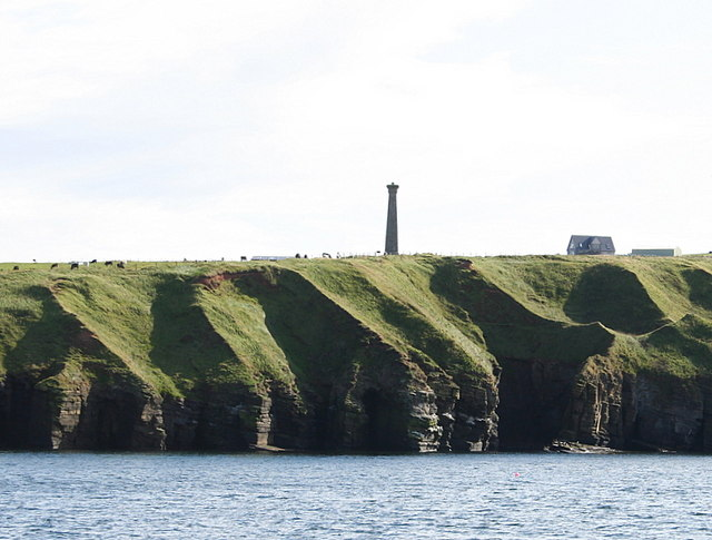 Seaward view of the Covenanter's memorial The locals tell the story of this wreck saying that the Covenanters were chained below decks and when the prisonship, The Crown foundered, the crew made it ashore by the "bridging" offered by a fallen mast. The Covenanters were left in their chains.